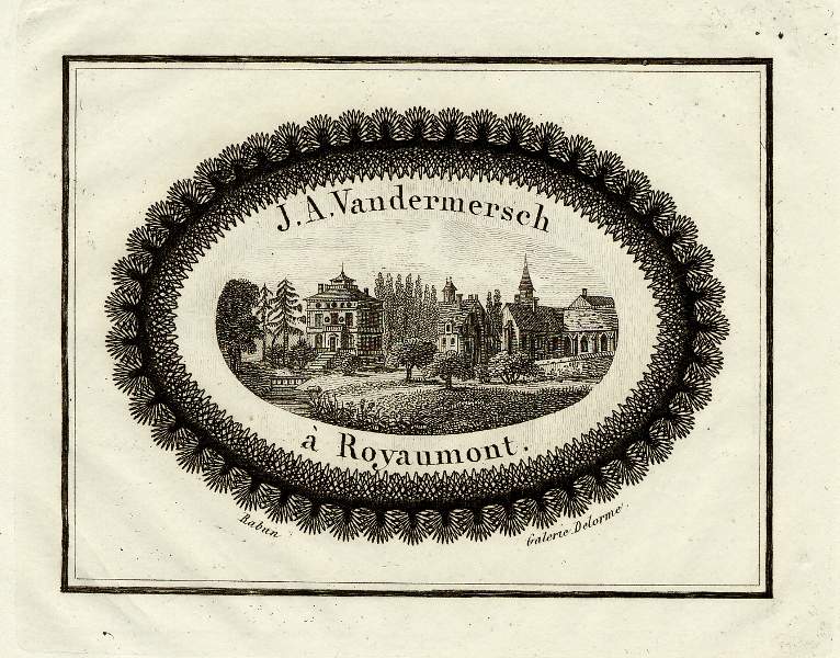 Cachet de l’entreprise van der Mersch (Royaumont)